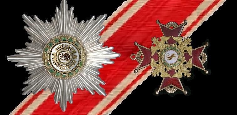 Order of Saint Stanislaus (Imperial House of Romanov) A scan of a star anf cross in my own collection. The ribbon is painted.